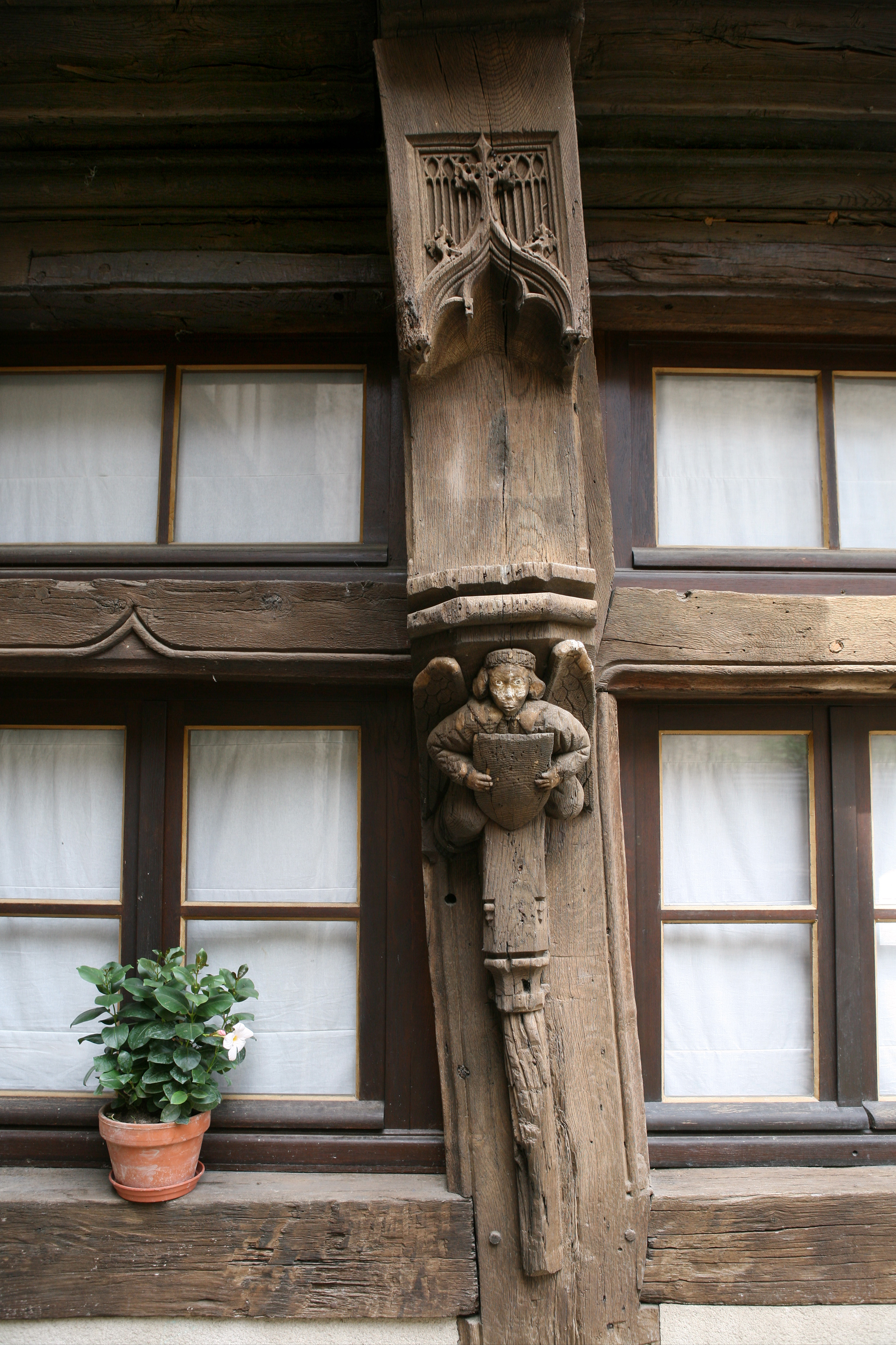 Detail of sculptures from the maison du compagnonnage, Noyers-sur-Serein, Yonne, Burgundy, France